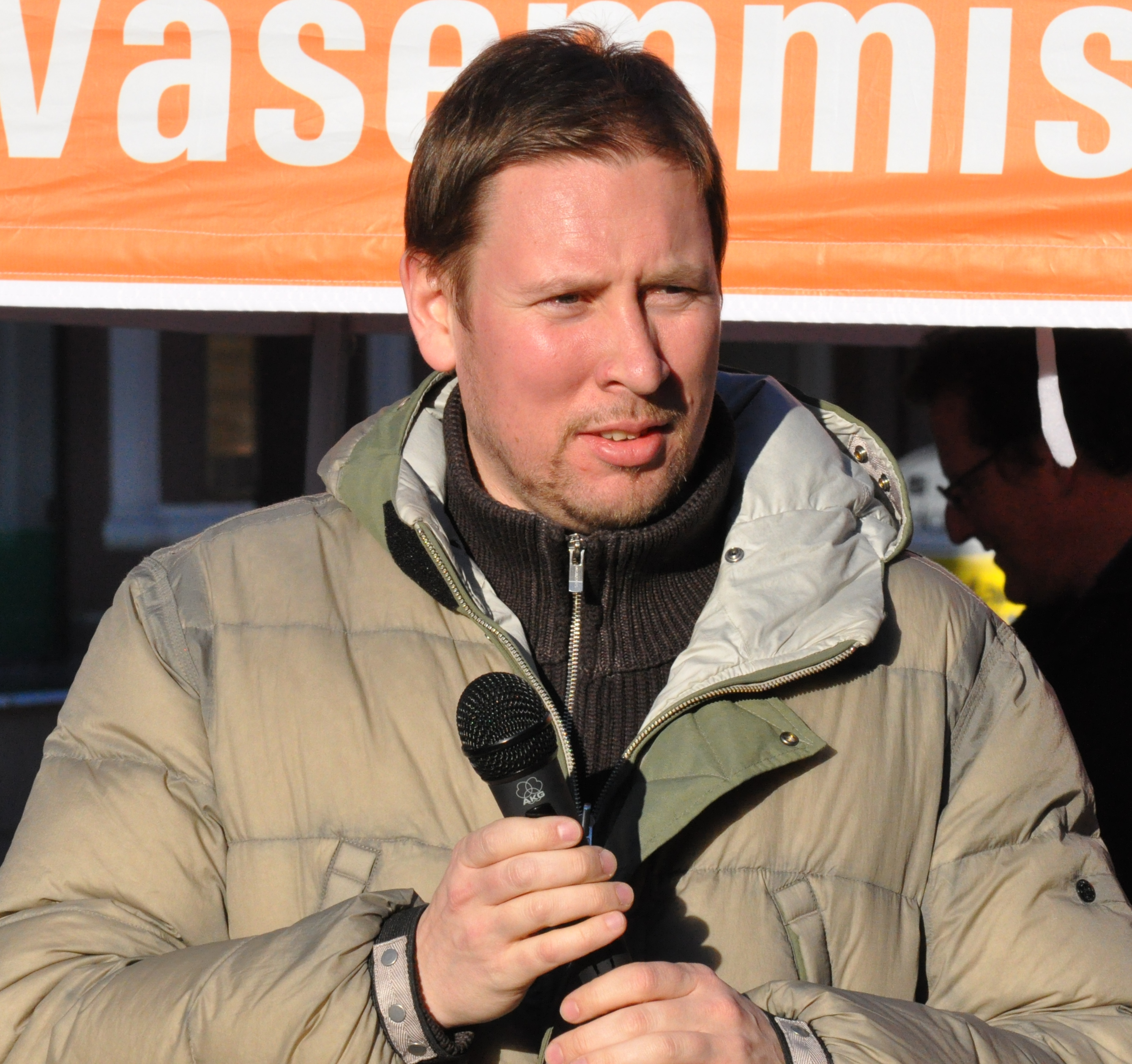 Chairman of the Left Alliance Paavo Arhinmäki in Turku, 2011.